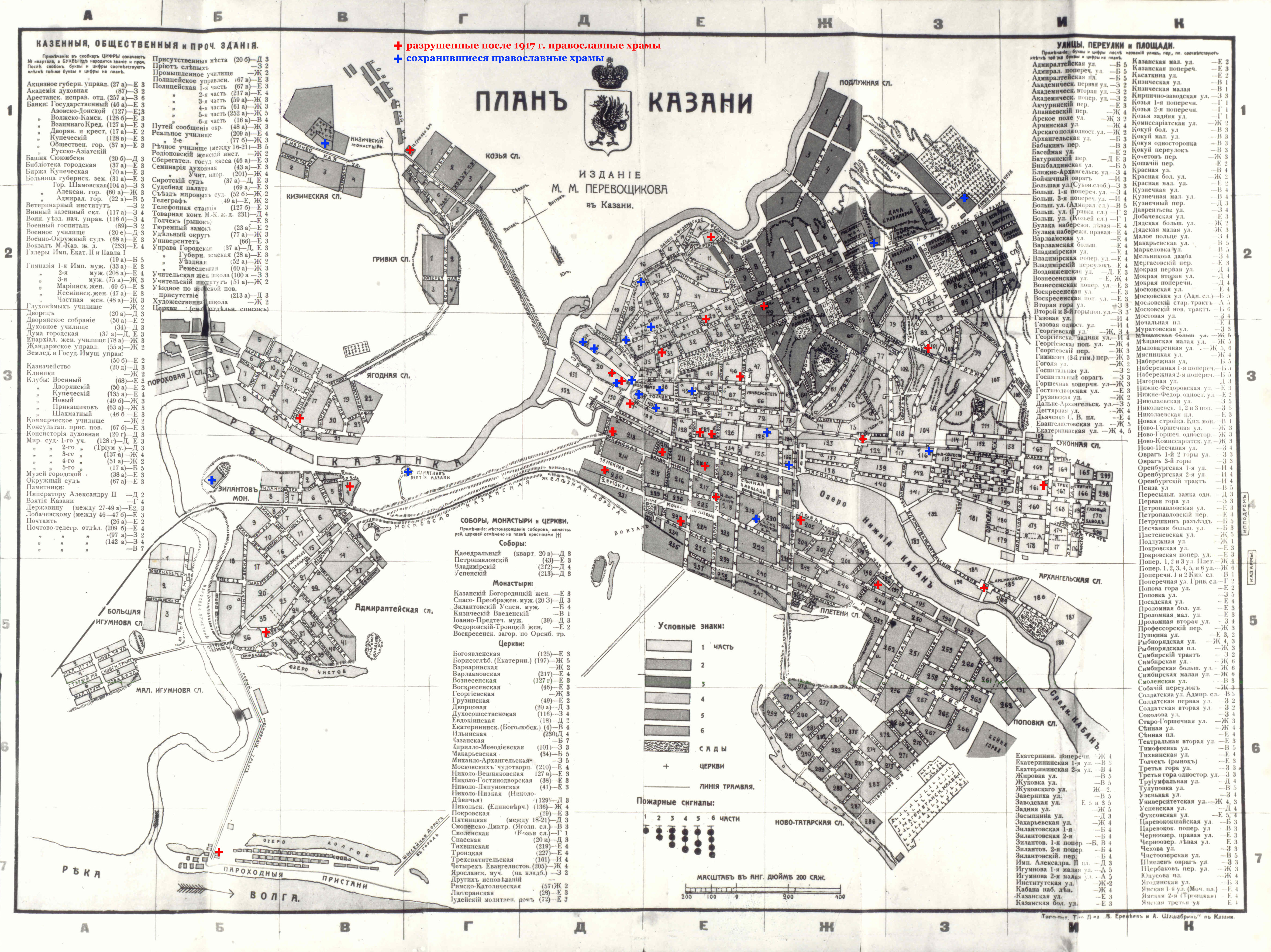 Map of Kazan in the 19 century with the indication of Orthodox Christian churches destroyed after 1917 and those that survived soviet period